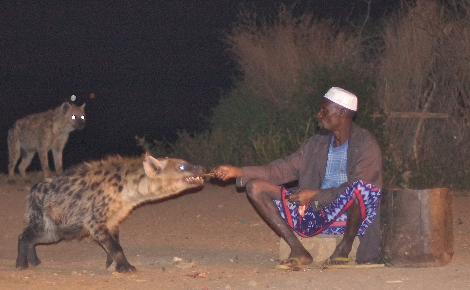 Spotted hyenas being fed in Harar